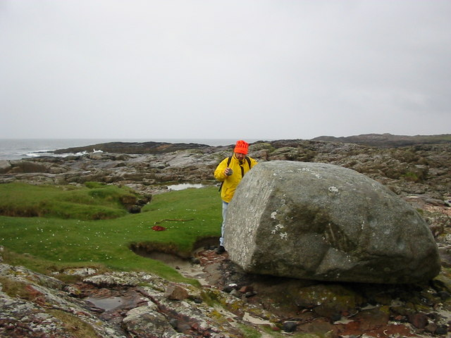 The Ringing Stone A large cup marked rock that rings when hit.